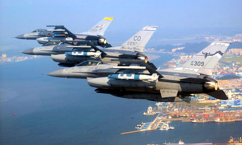 A three-ship formation of Air National Guard F-16s fly over Kunsan City, South Korea. The F-16s are #86-0309 from the 186th FS, #87-0237 from the 120th FS and #87-0243 from the 188th FS. [USAF photo by TSgt. Jeffrey Allen]